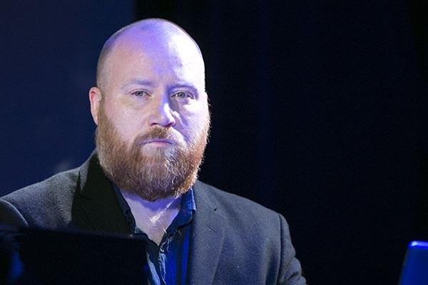 Jóhann Jóhannsson looking right at you.